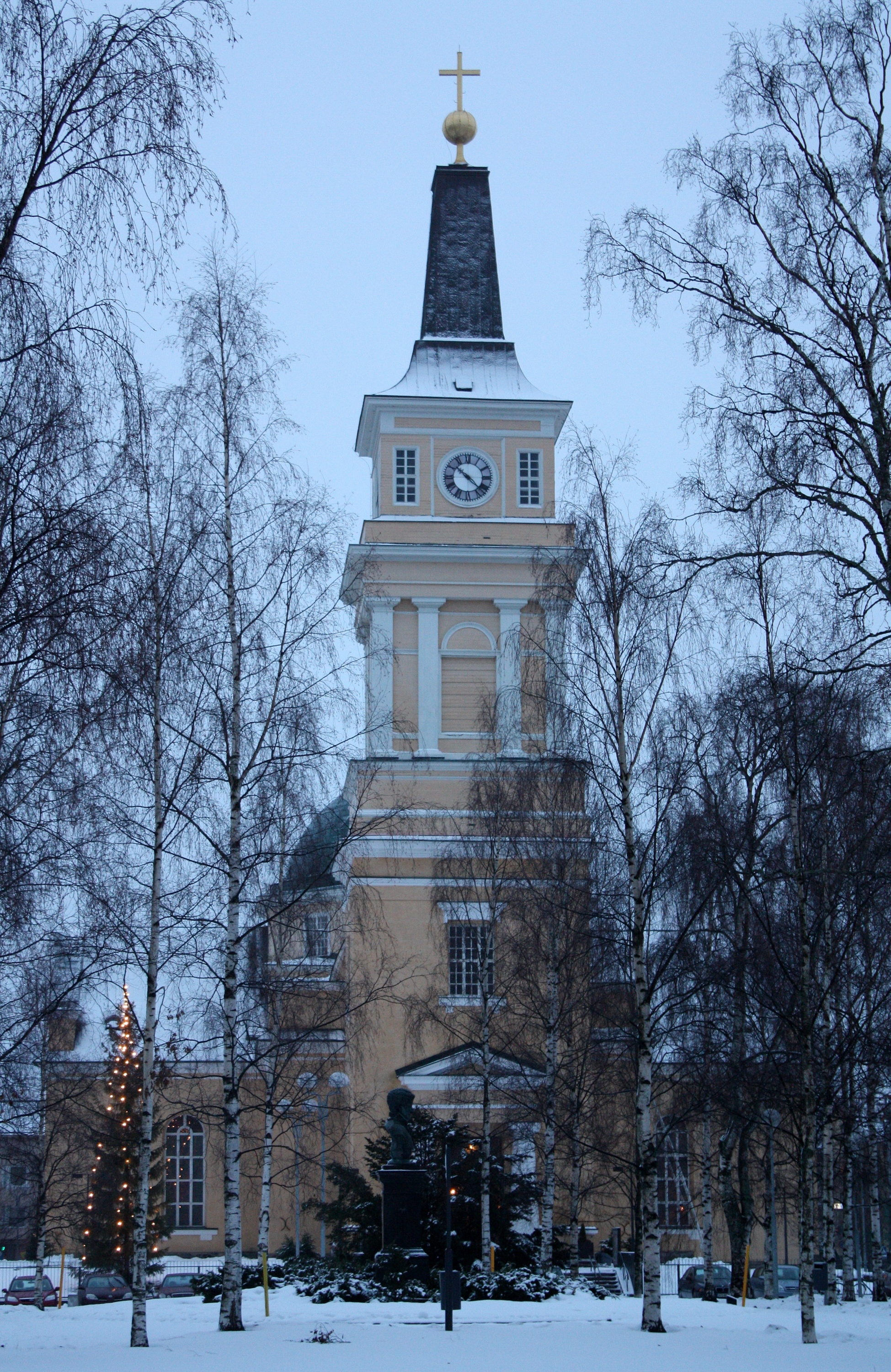 Oulu Cathedral with a Christmas tree outside.